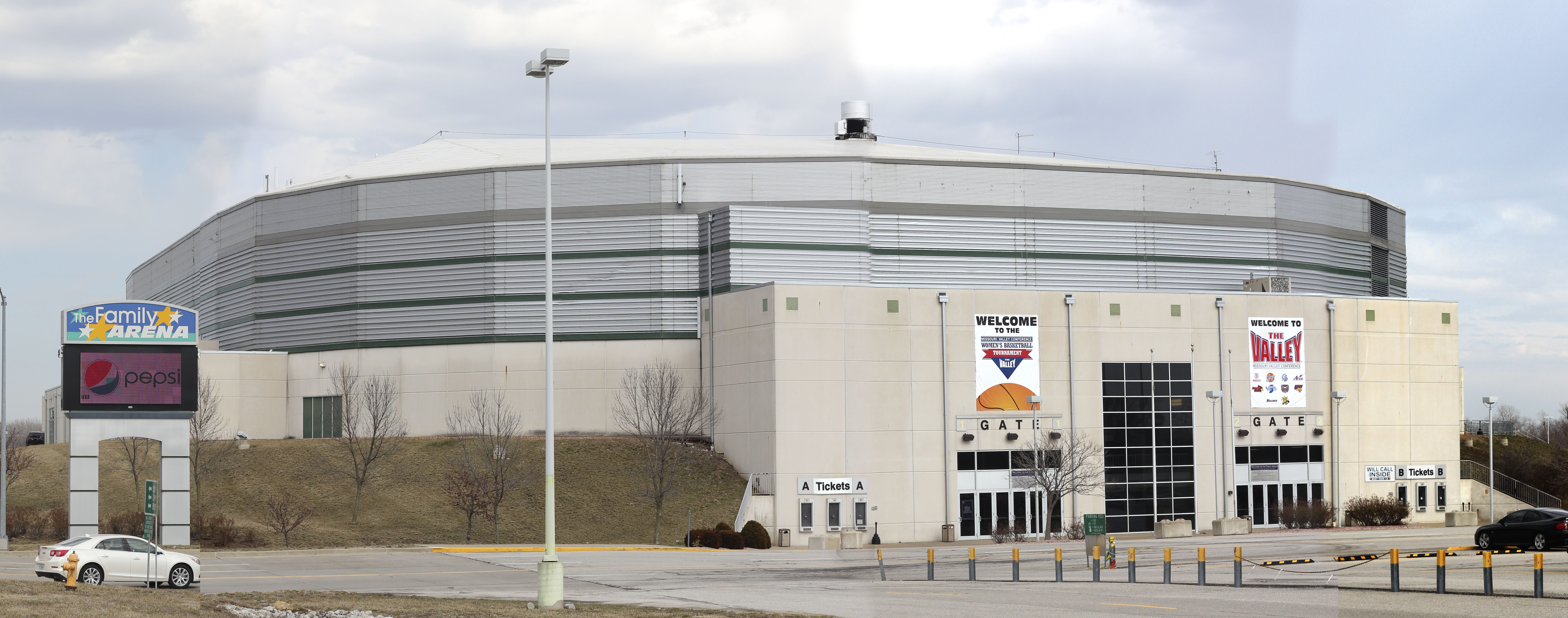 Family Arena in St.Chalres mo